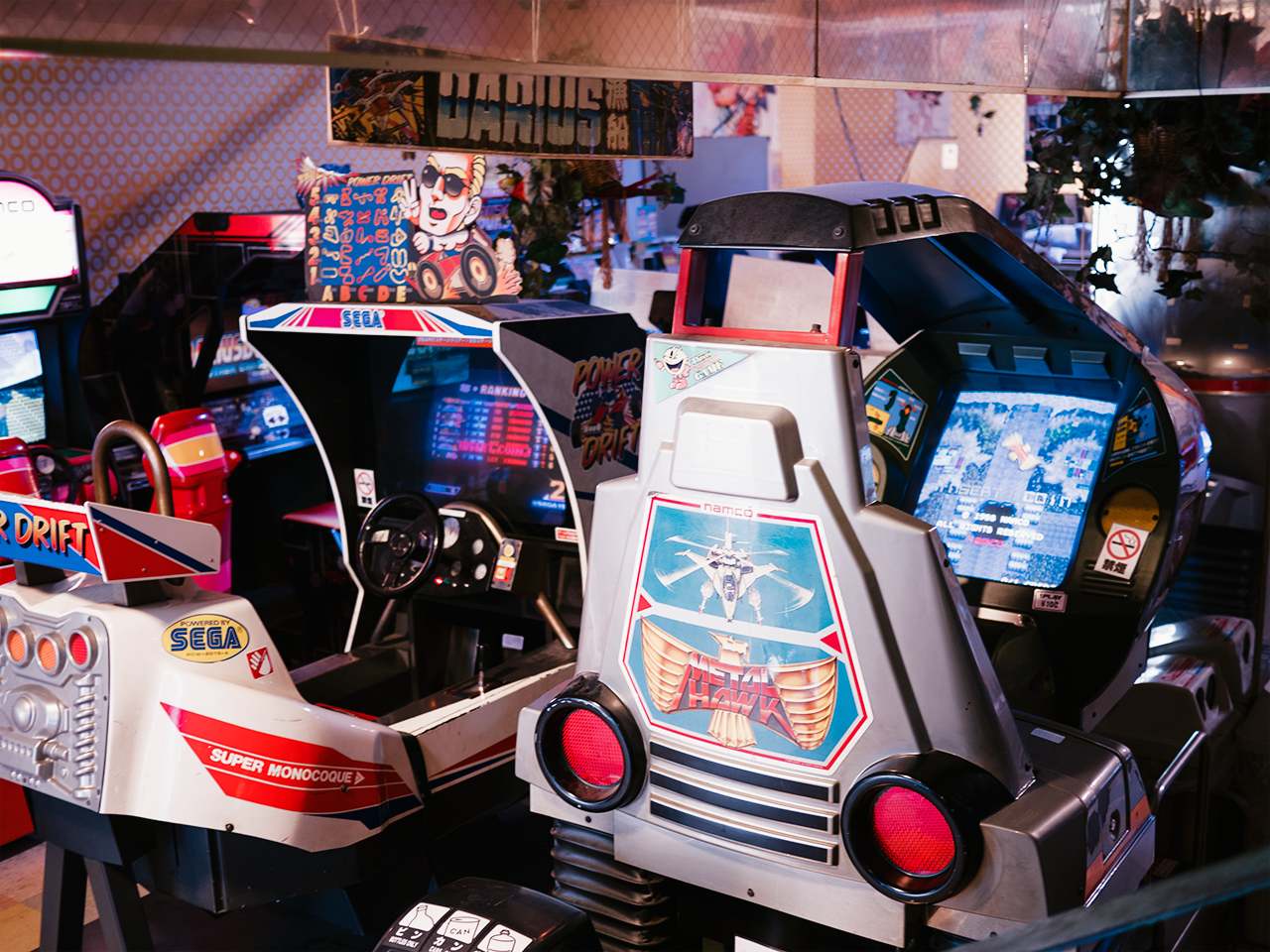 Takadanobaba Game Center Mikado 1F